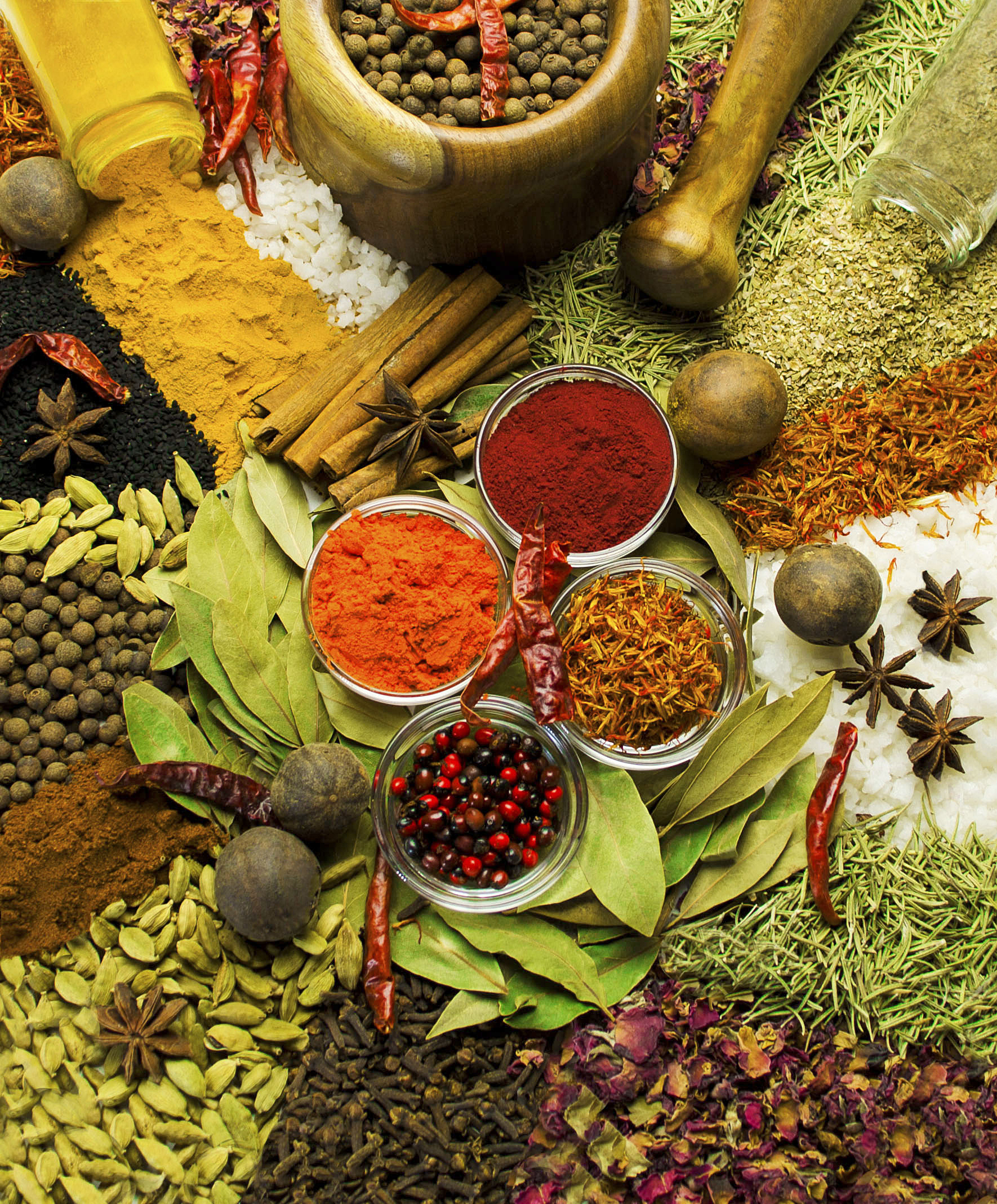 Egyptian Spices This is an image of food from Egypt